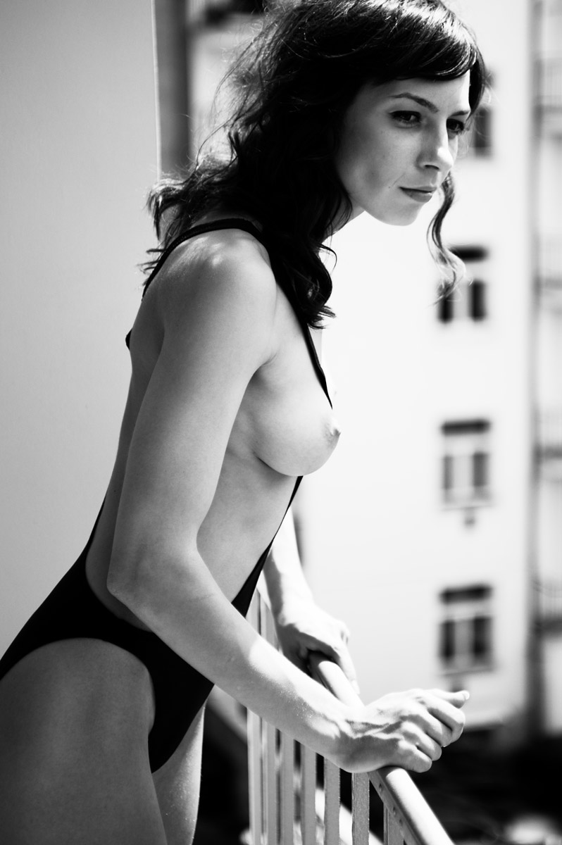 A young woman wearing a monokini that leaves her breasts exposed. She is standing on a balcony.